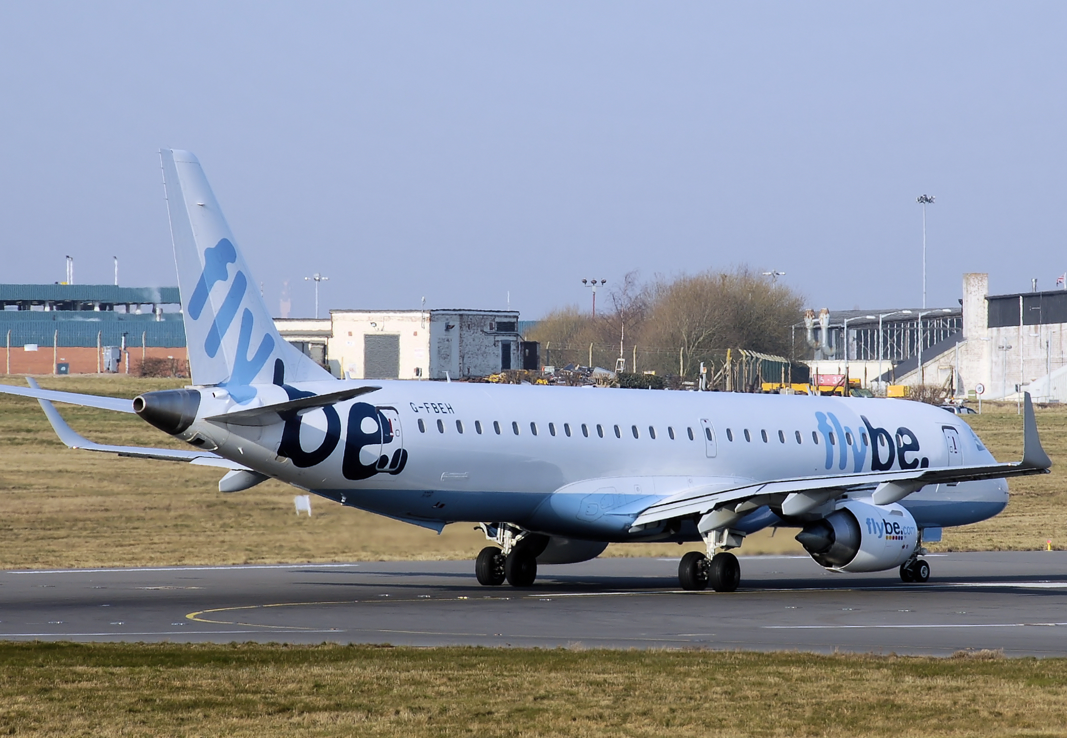 Flybe Embraer EMB 195 (G-FBEH) taxis for take off at Birmingham International Airport, England.